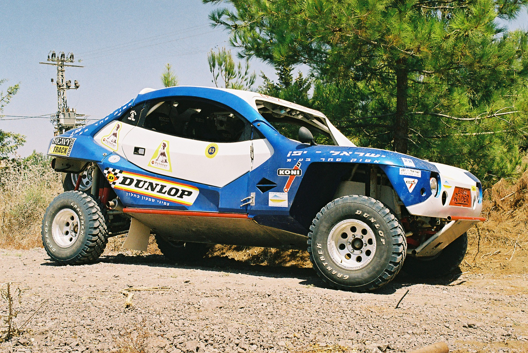 The "Erez Raider", chassis by Erez Abramov, body designed by Nir Kahn. Multiple Israeli Rally Raid champion in the T1 4x2 category.